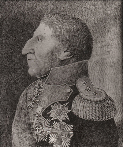 Georg Frederik von Krogh (1732-1818), Dano-Norwegian general